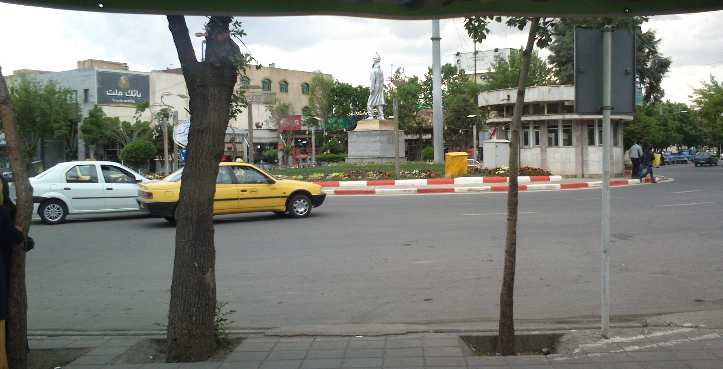 This is a (edited) photo captured by me from "Islamic Revolution" circle of Salmas.